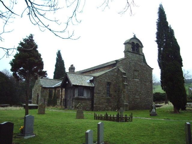 St Chad's parish church, Claughton, Lancaster, Lancashire, seen from the northwest